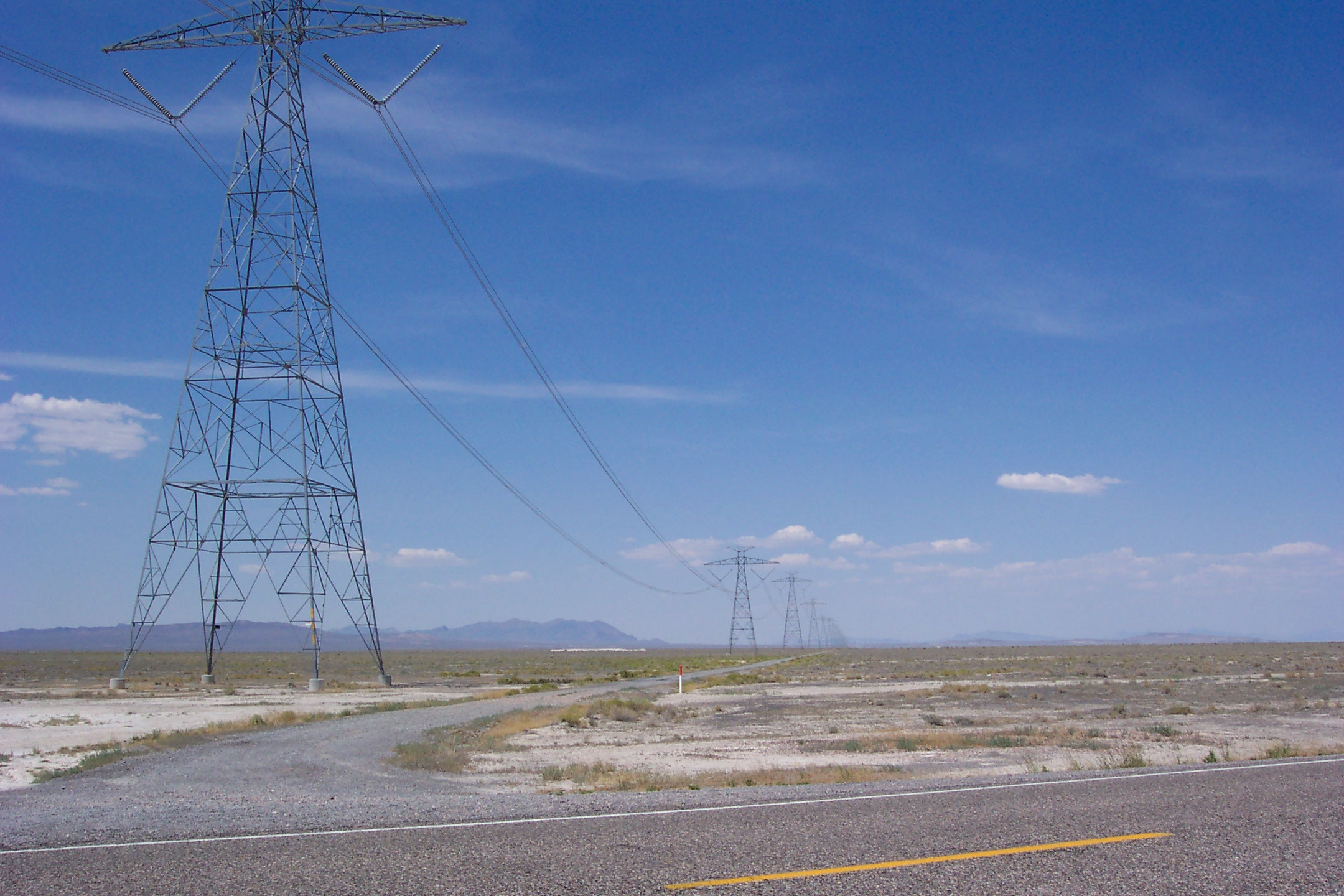 The Path 27 'Intermountain' HVDC power line. Photo taken from U.S. Route 50 in Utah.